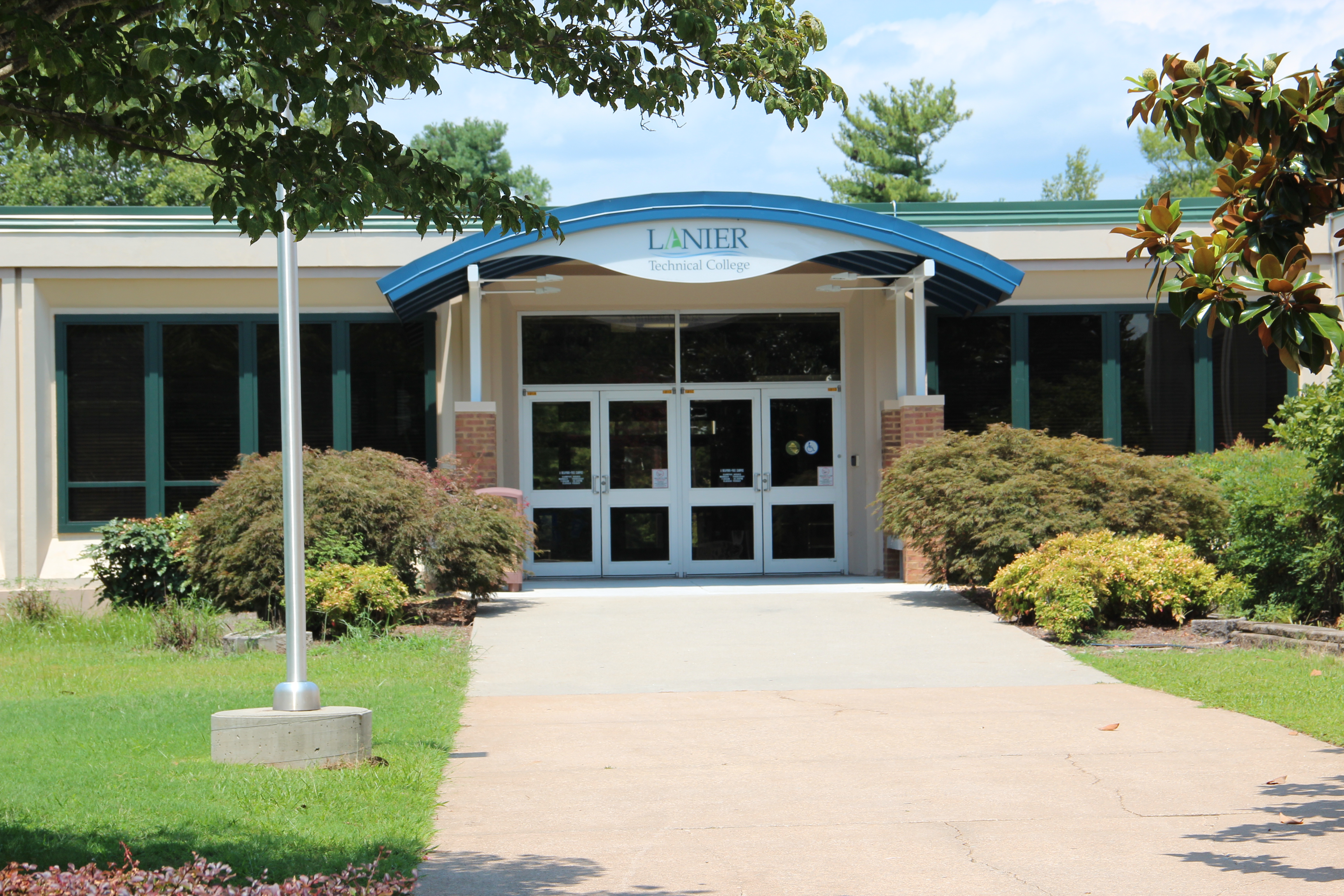 Lanier Technical College's administrative building